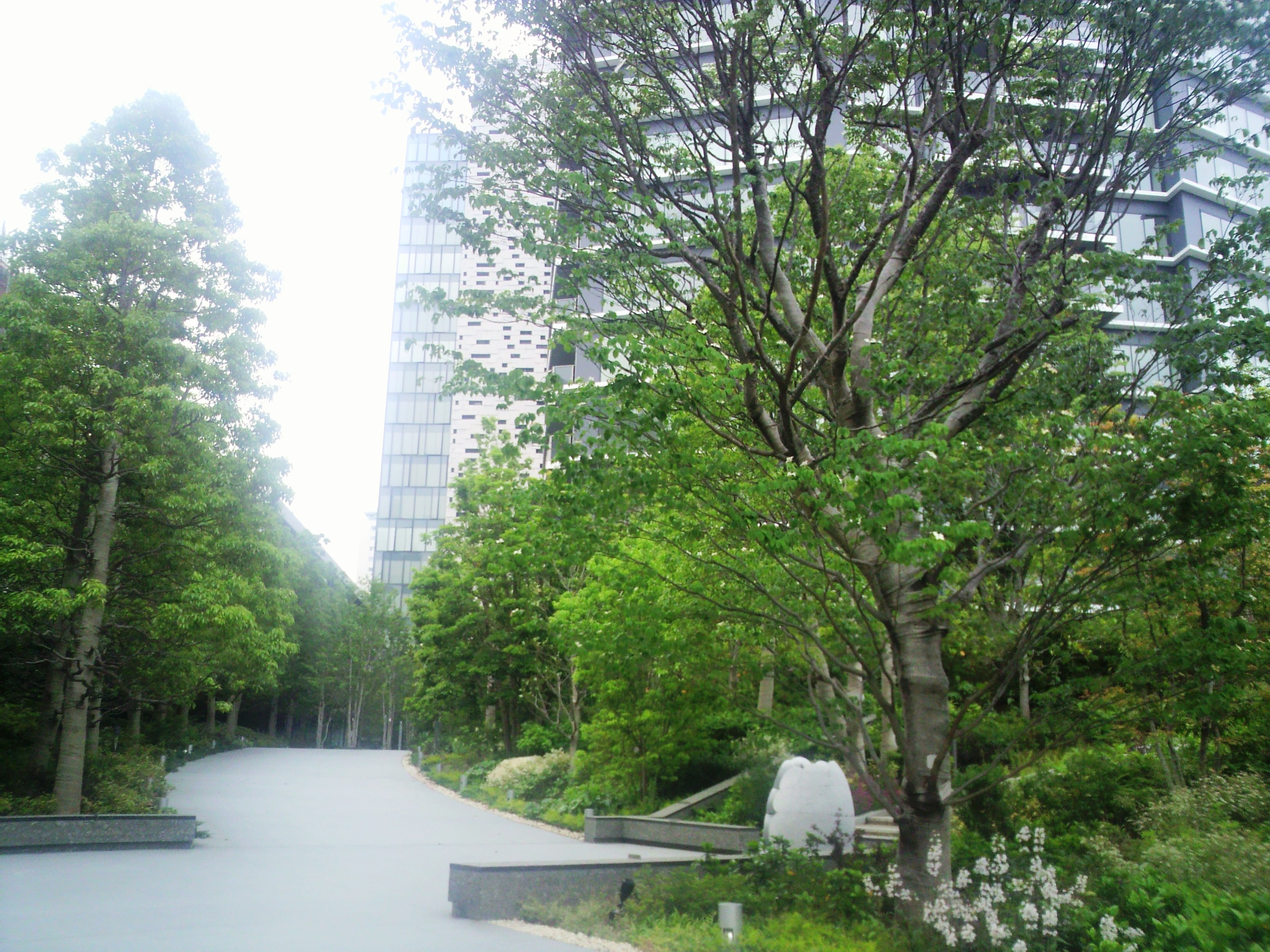 Shinjuku East Side, Higashi-Shinjuku Date: June 02, 2012